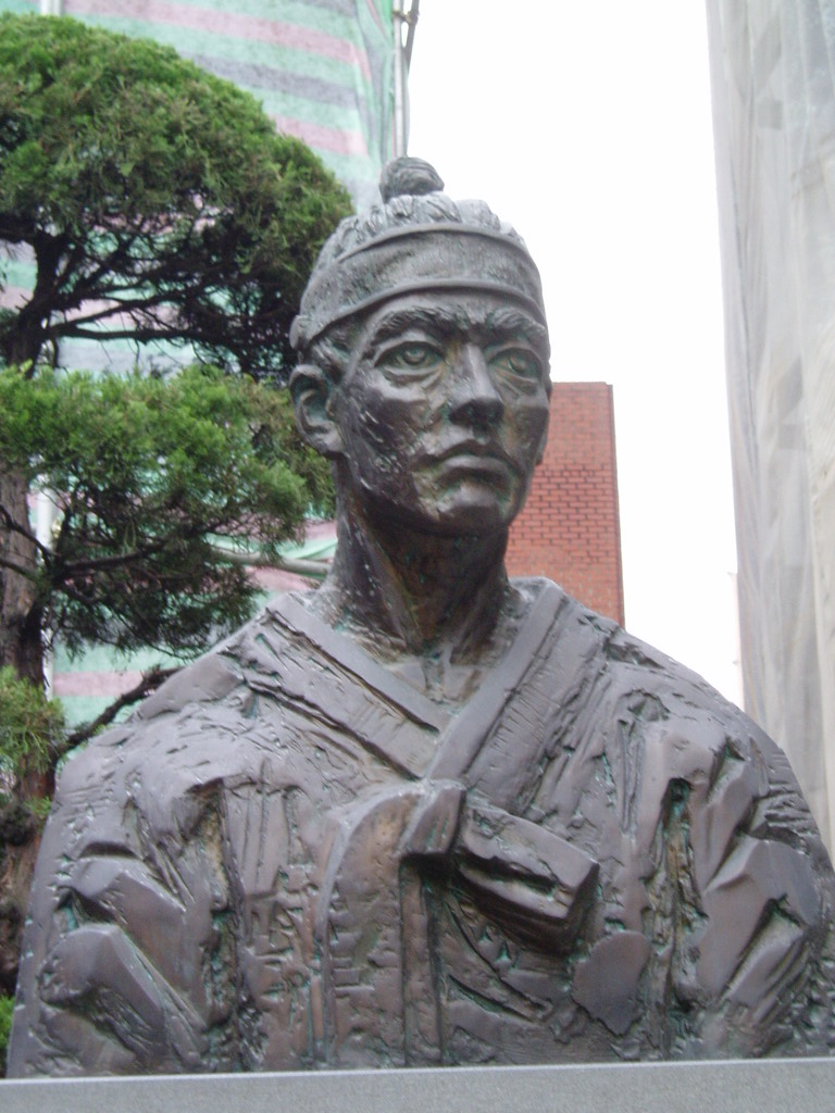 Korean priest-Andrew Kim Taegon